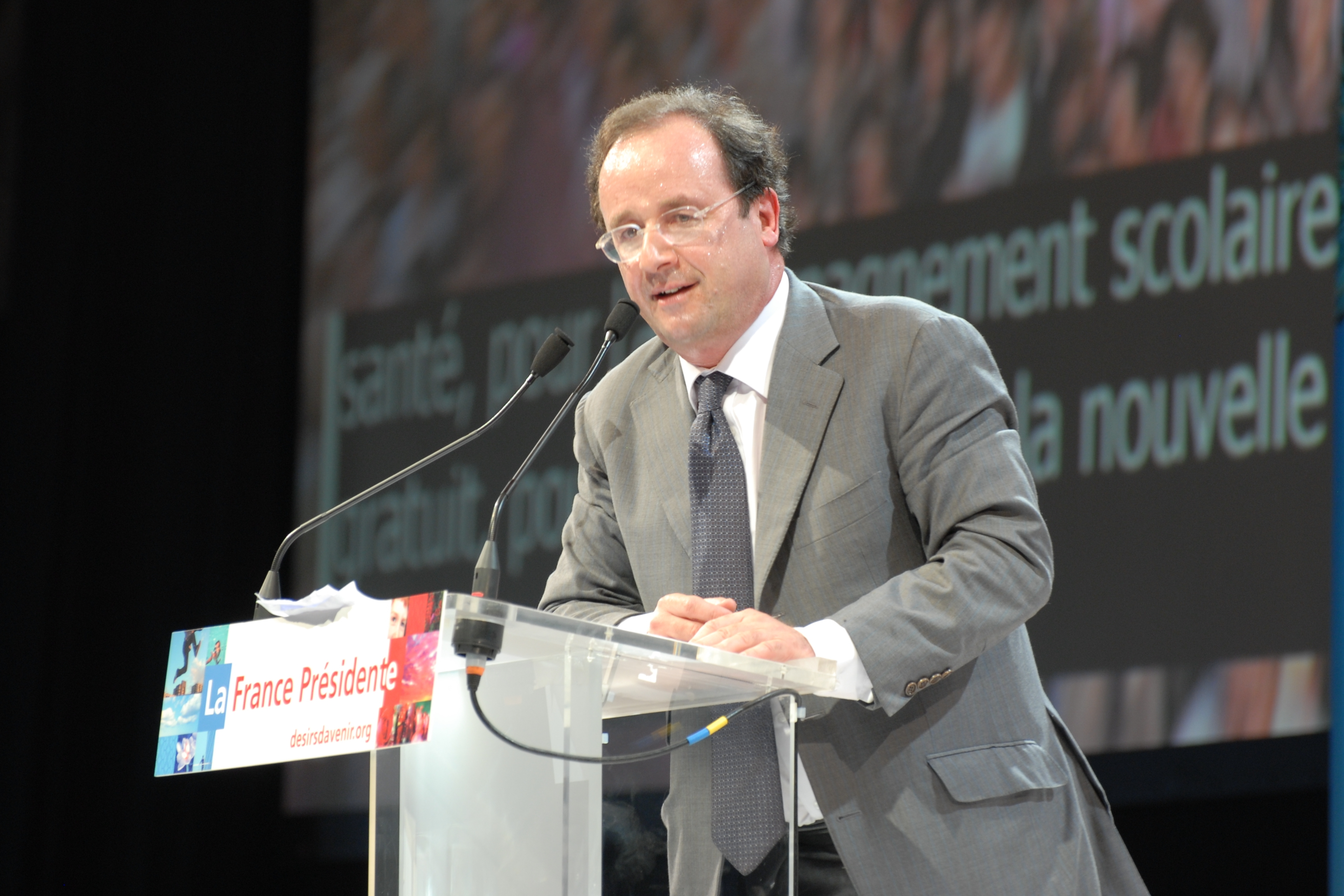 François Hollande during Ségolène Royal and José Luis Rodríguez Zapatero's meeting in Toulouse on April, 19th 2007 for the 2007 presidential election.